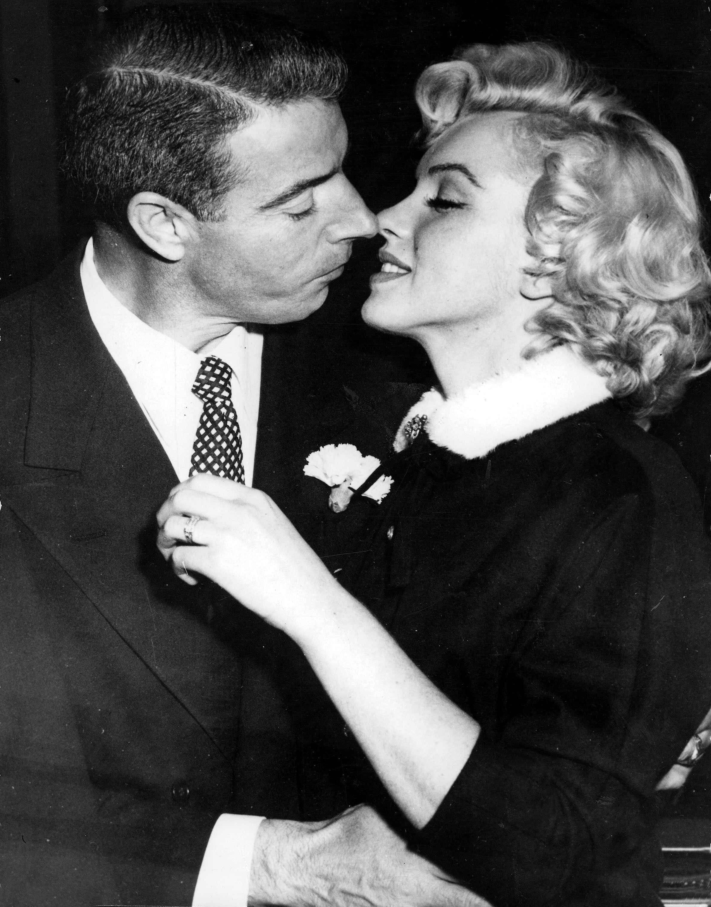 Photo of Marilyn Monroe and Joe DiMaggio after getting married at the San Francisco City Hall from the May 1961 issue of TV-Radio Mirror. Note this is a larger, better quality uncropped copy of the photo seen on Radio-Tv Mirror page 22. A renewal search was done at using the title Radio-TV Mirror. There were no listings for the publication; there's no evidence of continued copyright on the magazine.